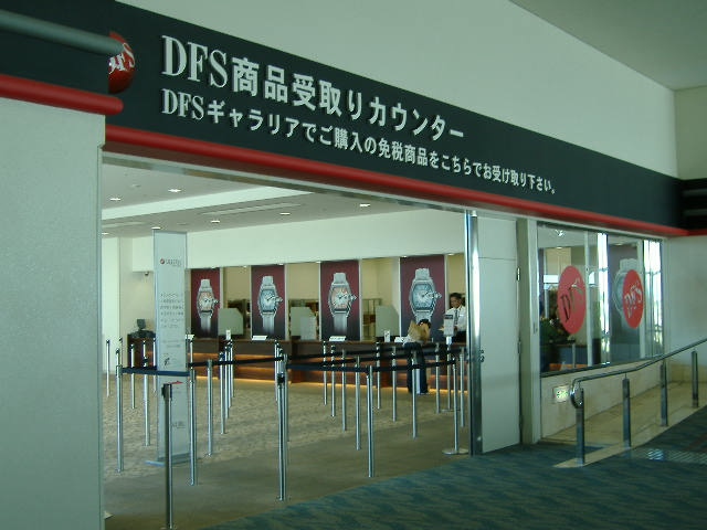 DFS-Okinawa in Naha Airport